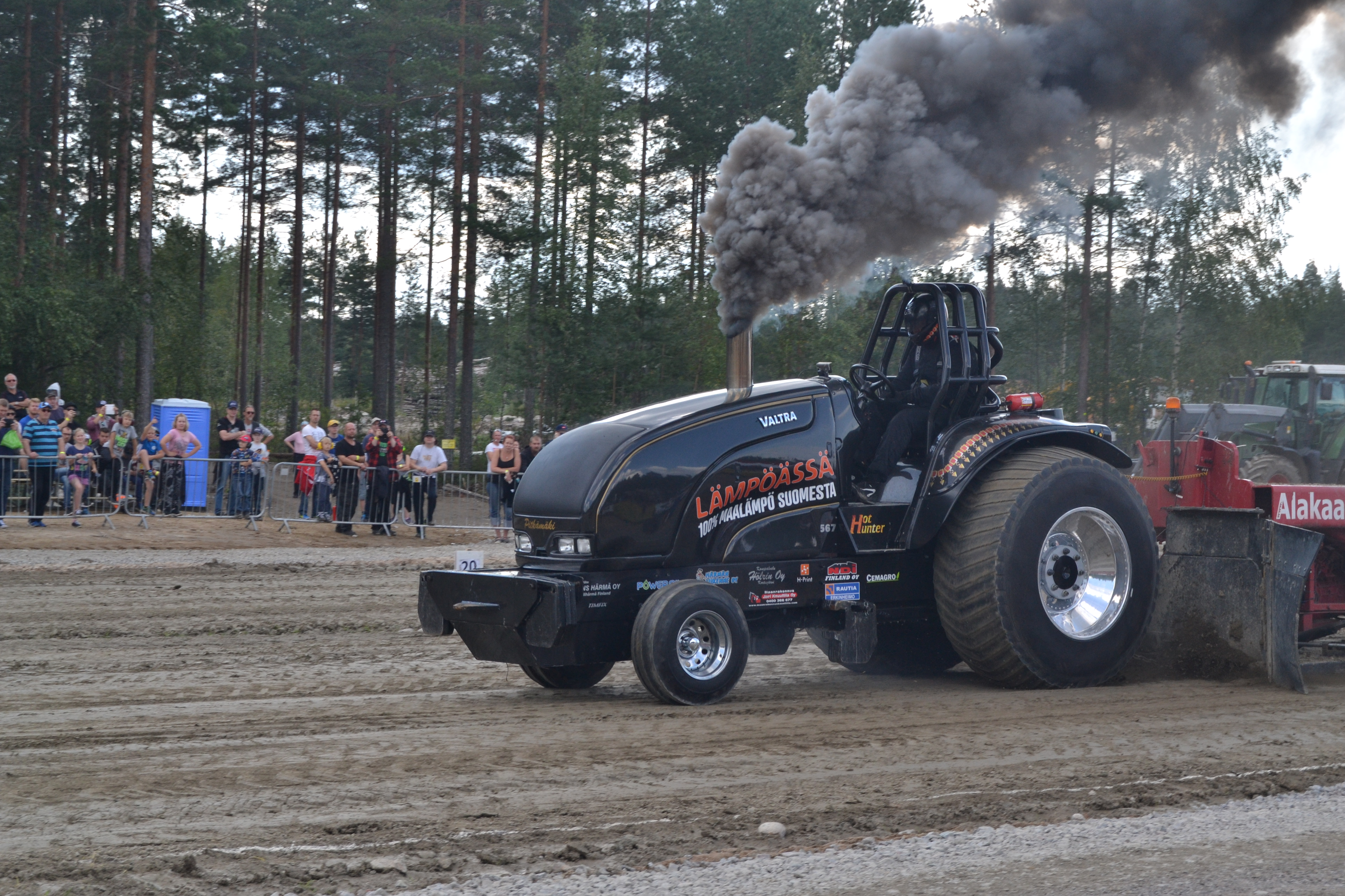 Hot Hunter tractor pulling tractor at C race in Lievestuore, Laukaa, Finland